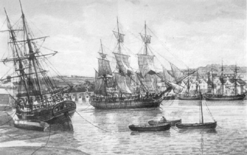 'Scene at Bideford Bridge', by Mark Myers, showing the crowded waters of the Torridge during the heyday of colonial trade.